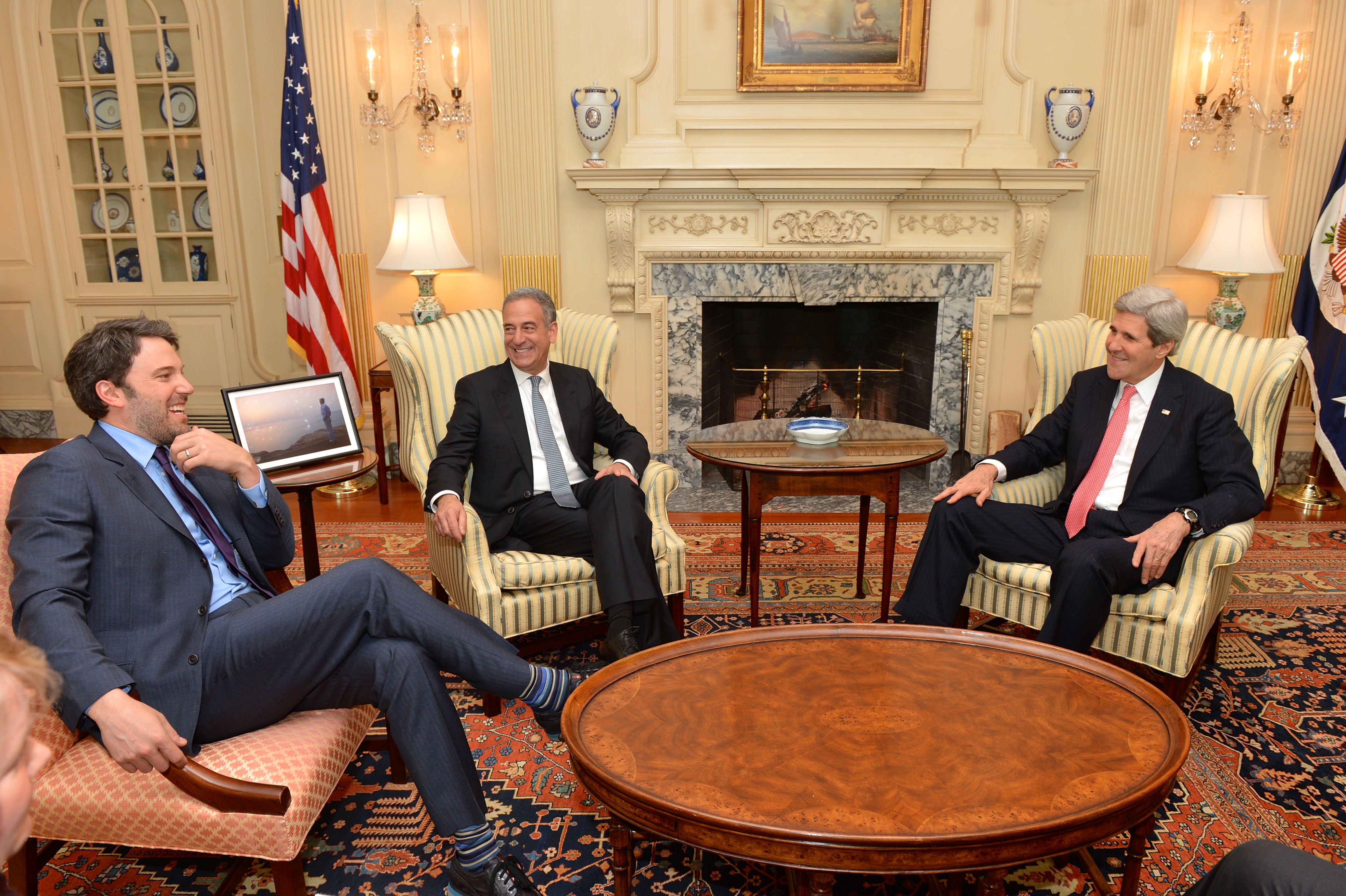 U.S. Secretary of State John Kerry and Special Envoy for the Great Lakes Region of Africa and the Democratic Republic of the Congo Russ Feingold meet with Ben Affleck, Founder of the Eastern Congo Initiative, at the U.S. Department of State in Washington, D.C., on February 26, 2014. [State Department photo/ Public Domain]